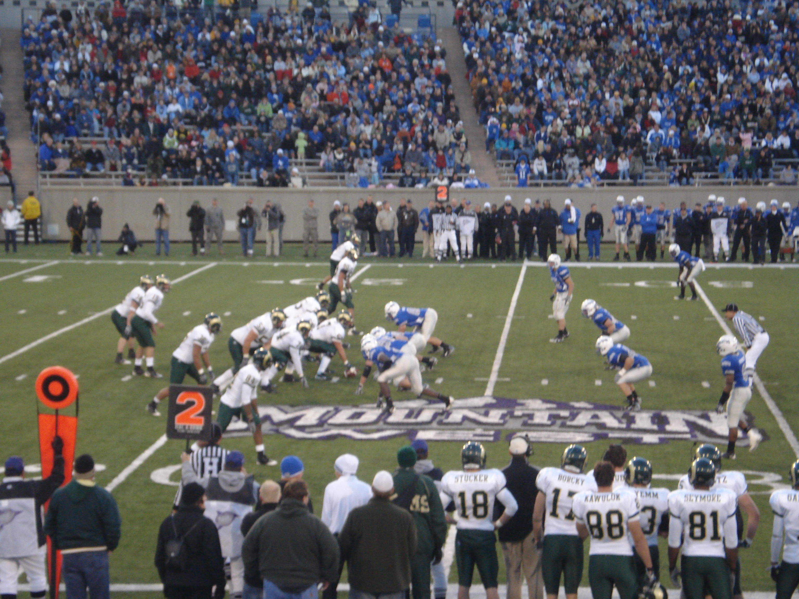 CSU is lined up in the shotgun formation against Air Force Academy on 11/08/2008.